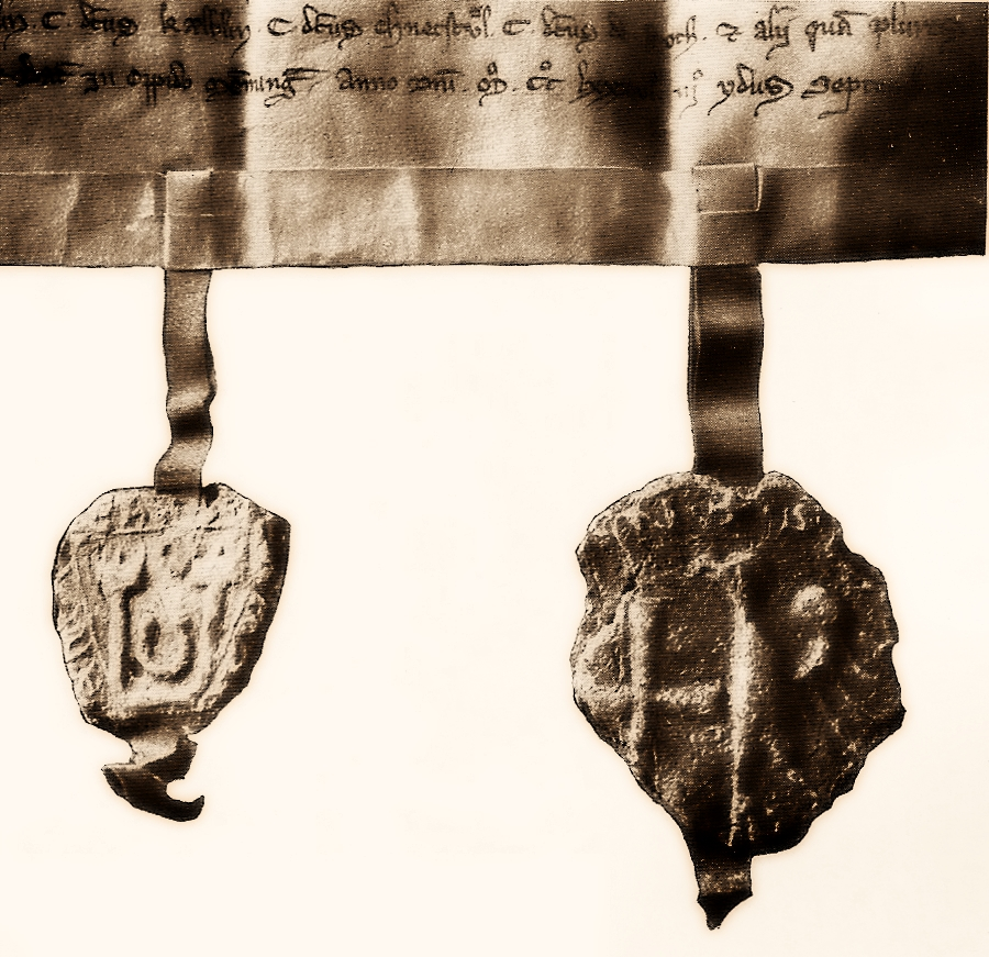 This is a scan of the document: Ludwig Mayr - Geschichte der Herrschaft Eisenburg (History of the Herrschaft Eisenburg)